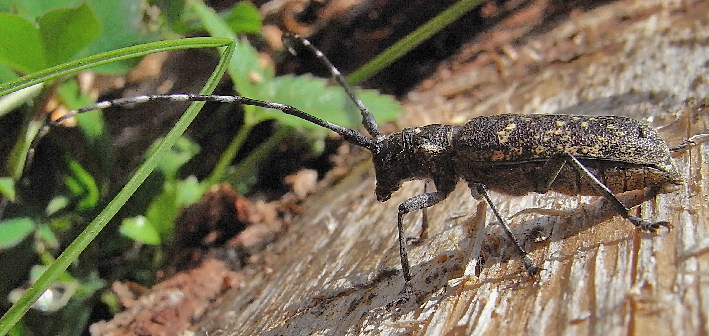 Monochamus sutor from Austria at 2010-07-23Ricoh R8